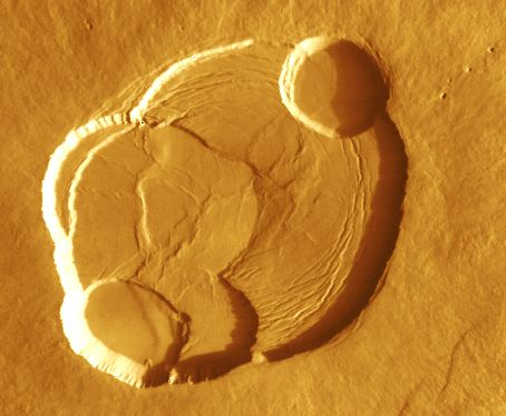 Converted from Olympus_Mons.png. From [1]